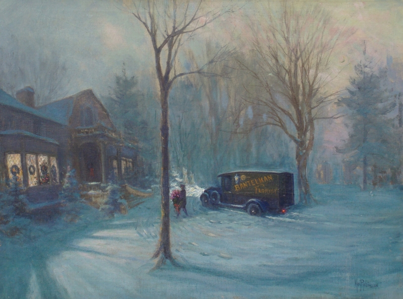 Flower Delivery Christmas Eve, Bronxville by Hal Robinson, oil on canvas, private collection